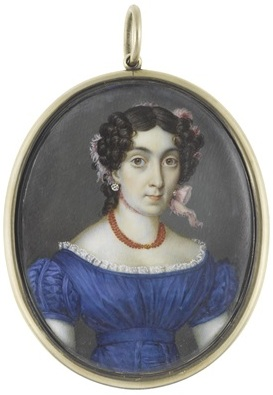 Watercolours